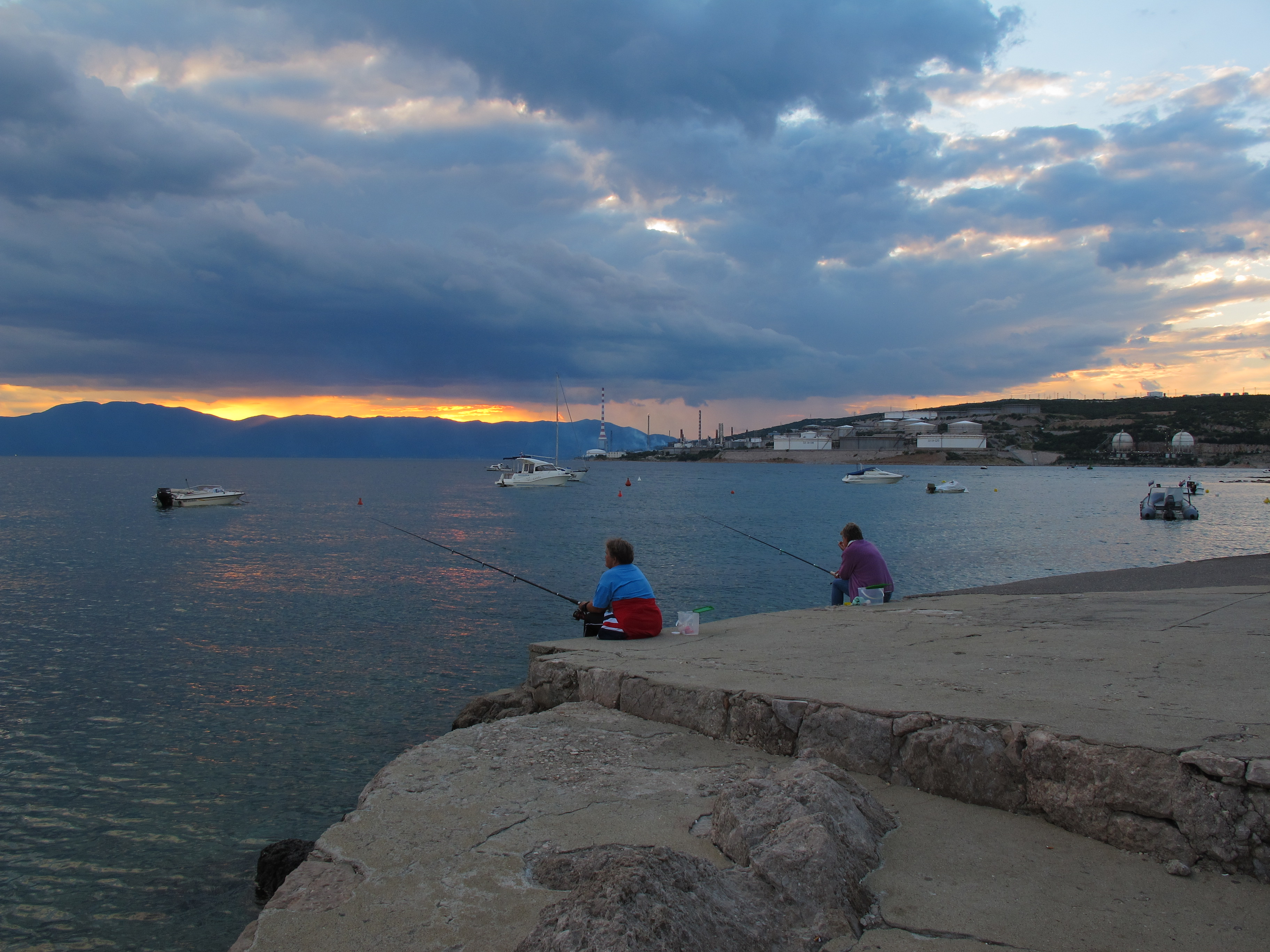 Entrance to the Bay of Bakar seen from Kraljevica Croatia / Adriatic Sea. In the background the grounds of the refinery Rijeka (INA).